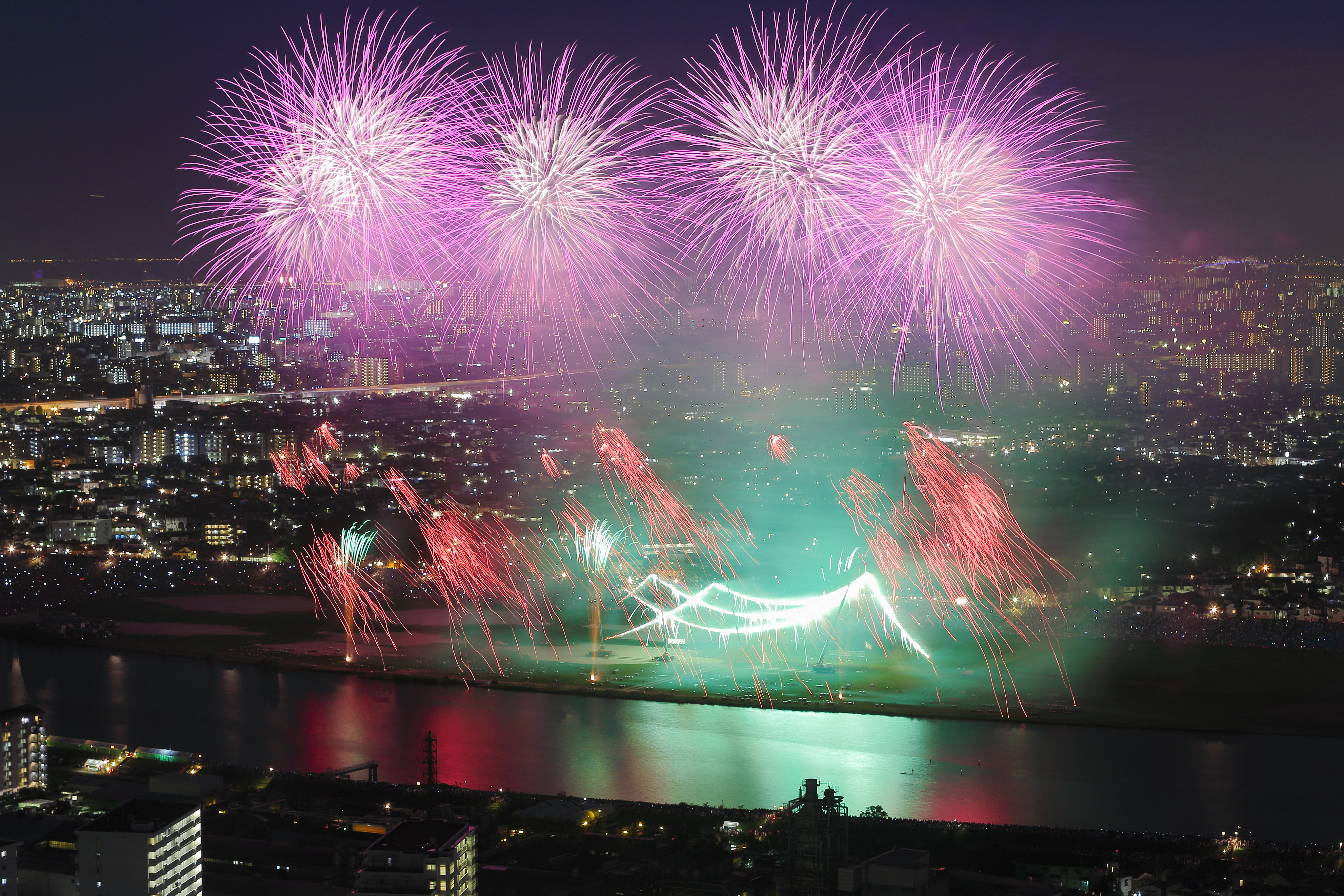 Ichikawa fireworks festival Chiba